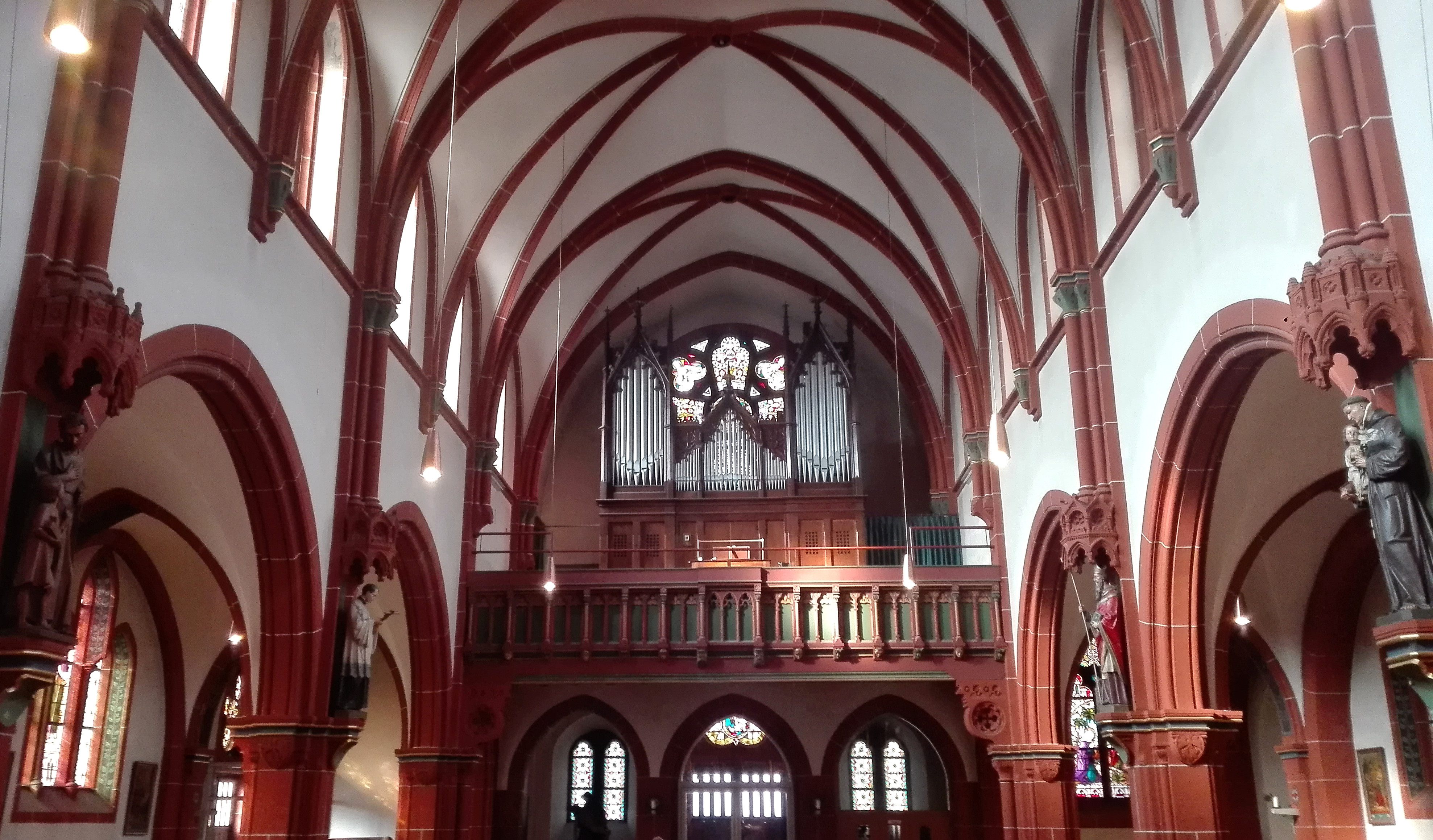 View from the central aisle to the organ loft in the Parish church of St. Matthew